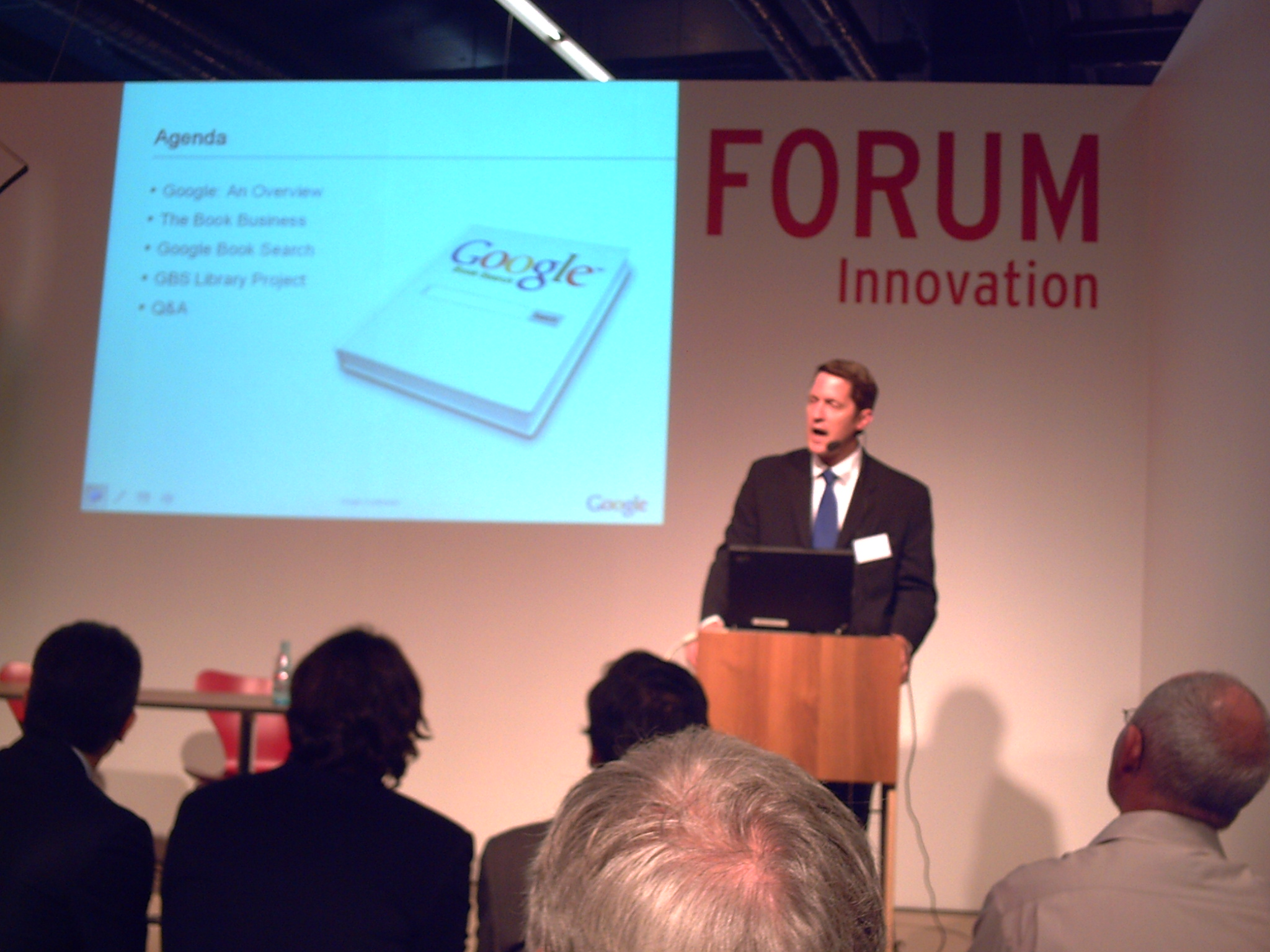 Roland Lange, Manager for Strategic Partner Development at Google, explains Google Book Search at the Innovation Forum of the Frankfurt Book Fair 2007.